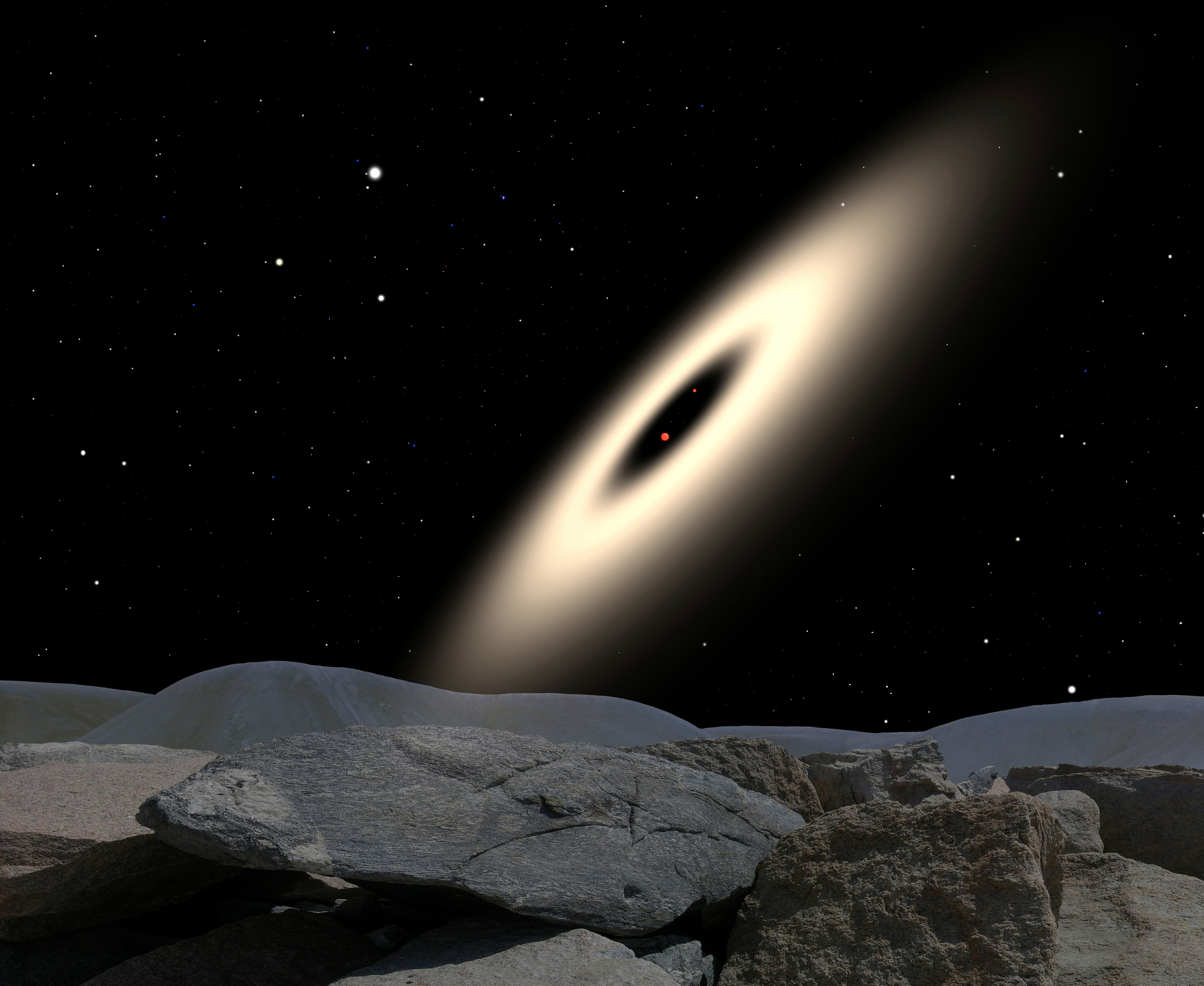 Red swarf Astronomers were surprised to discover a 25-million-year-old protoplanetary disk around a pair of red dwarfs 350 light-years away in the Stephenson 34 system. Gravitational stirring by the binary star system (shown in this artist's conception) may have prevented planet formation.